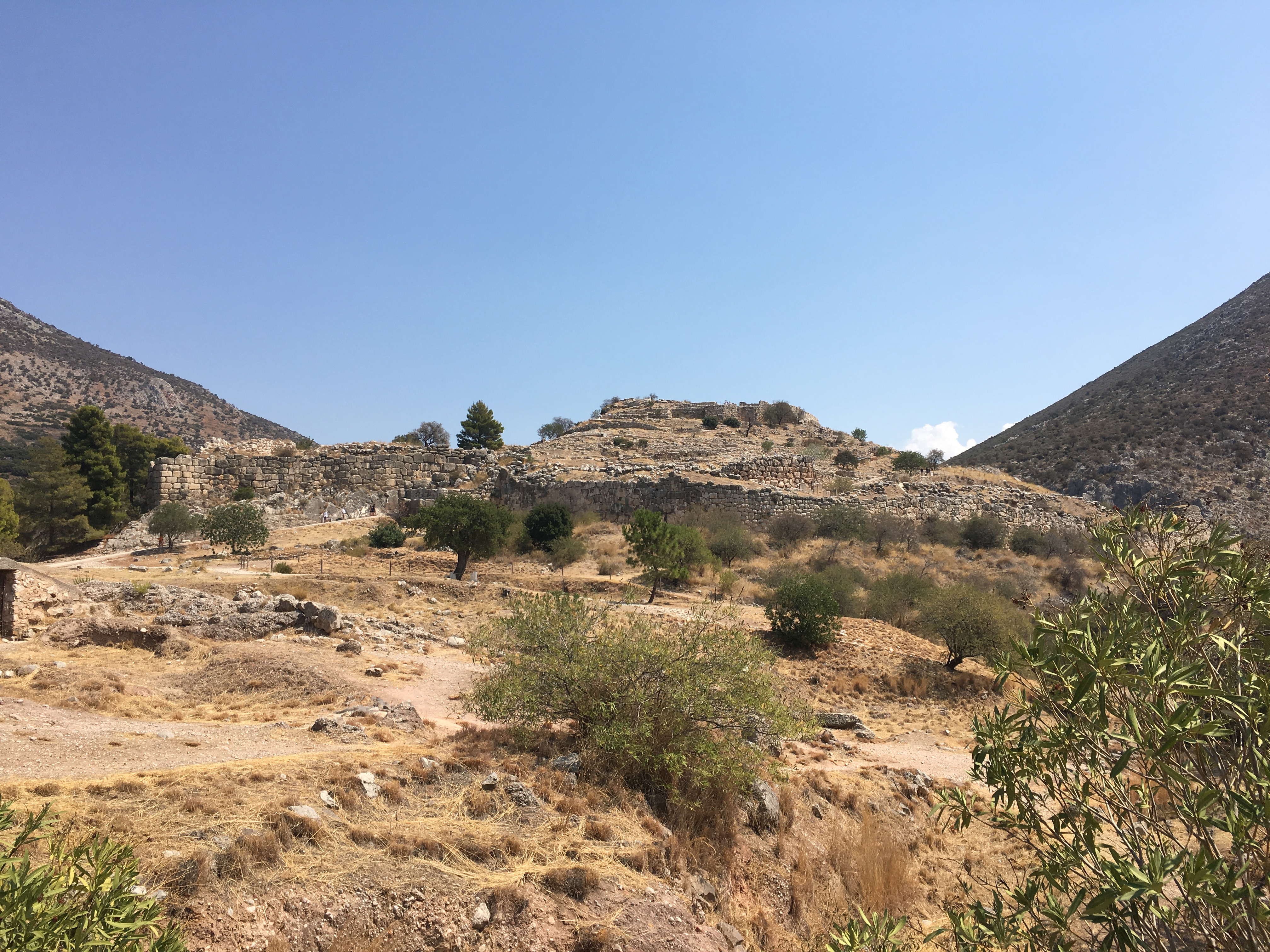 General view of Mycenae citadel & cyclopean walls